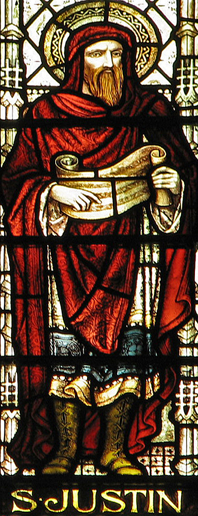 Stained glass depiction of Justin Martyr. Great St Mary's church in Cambridge.